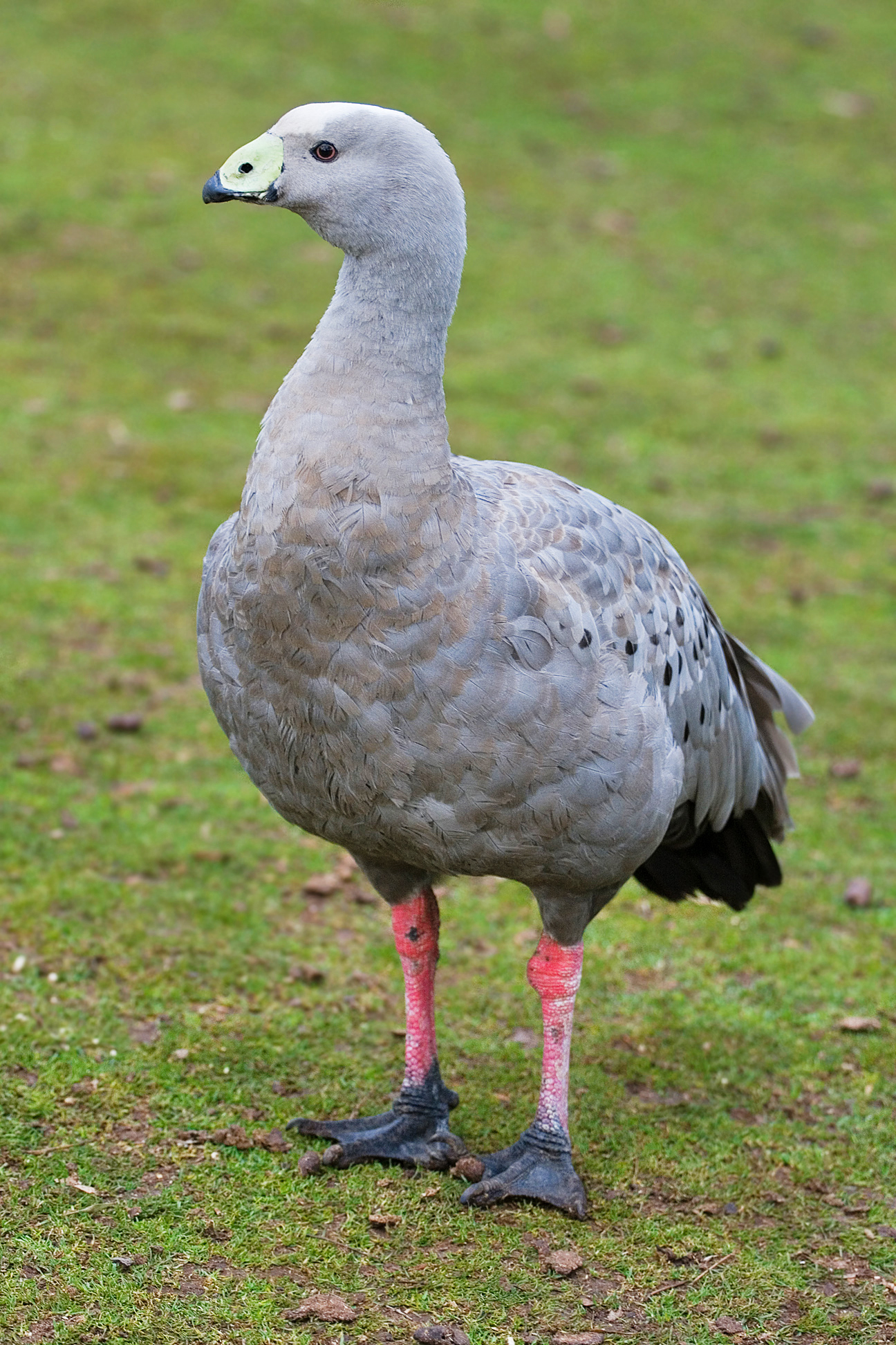 A Cape Barren Goose (Cereopsis novaehollandiae) in Tasmania, Australia